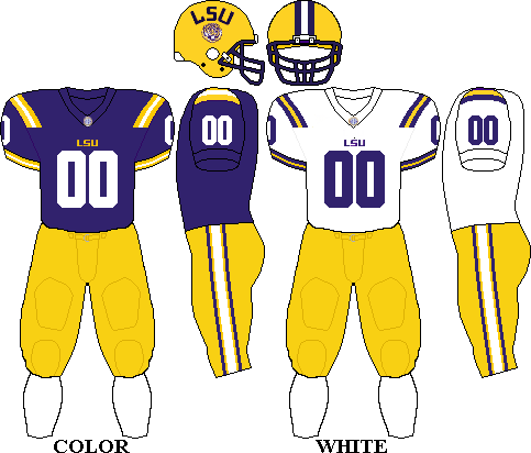 LSU uniforms